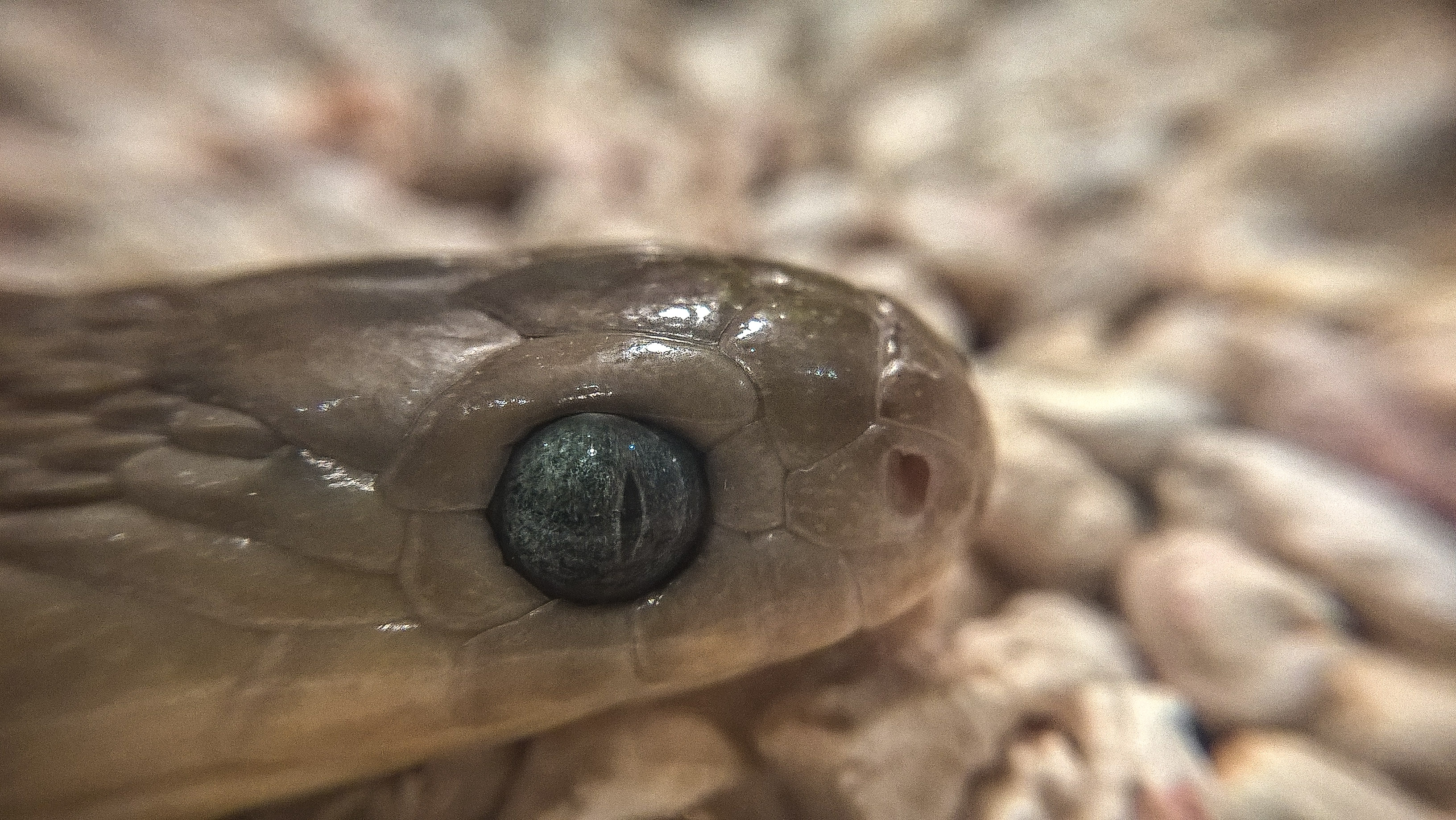 This is an eye of an egg-eating snake during its shedding. It is a species of nonvenomous snake endemic to Africa.